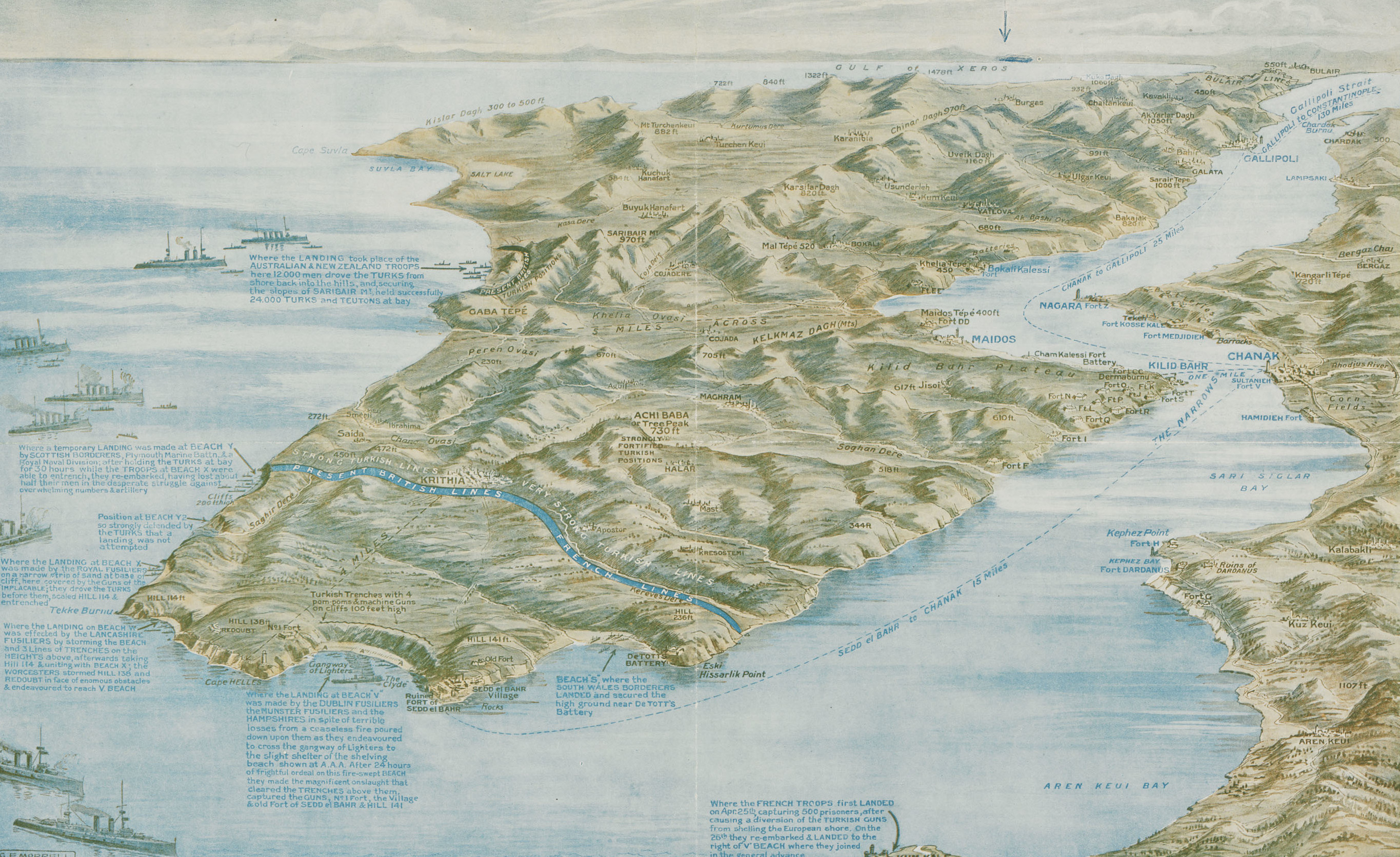 Map of the Dardanelles drawn by G.F. Morrell, 1915. The map shows the Gallipoli peninsula and west coast of Turkey, and the location of front line troops and landings.